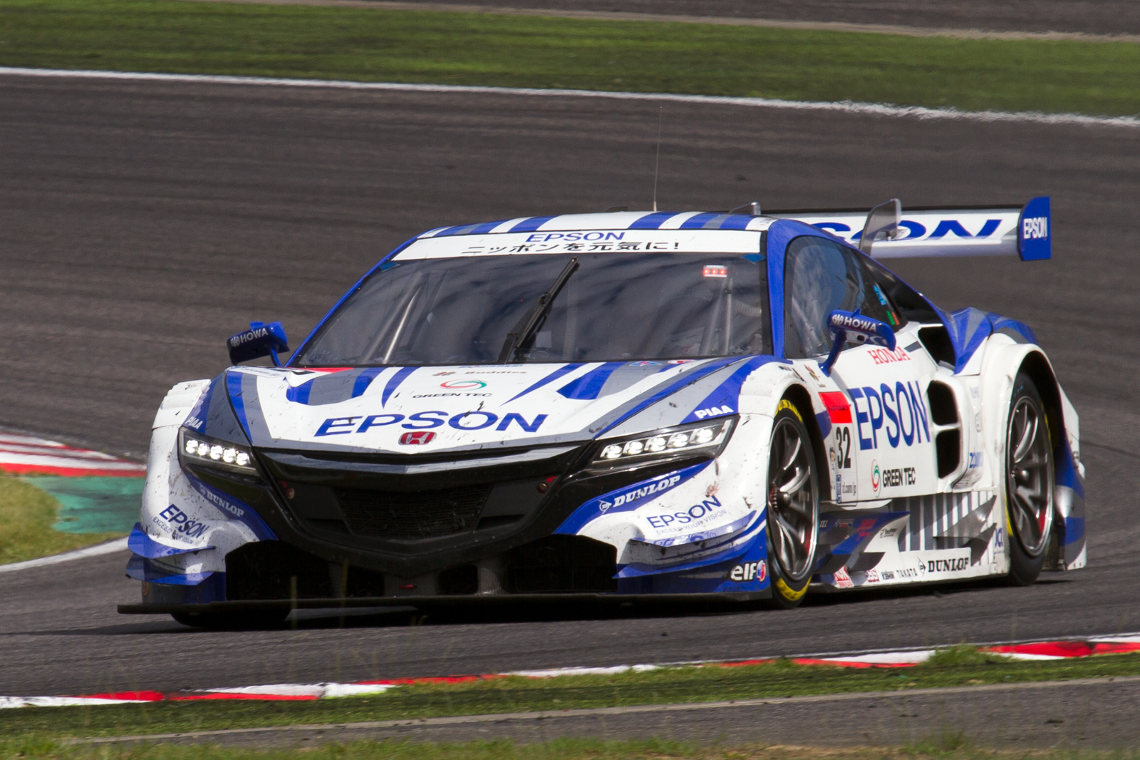 Super GT 2014 Rd.6 Suzuka 1000km: Daisuke Nakajima (Nakajima Racing)